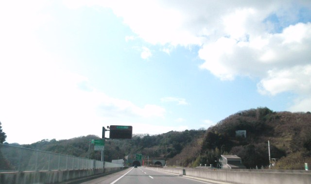 Ikawadanitown Fusehata Nishi-ku Kobecity Hyogopref Kobe Awaji Naruto EXPWY